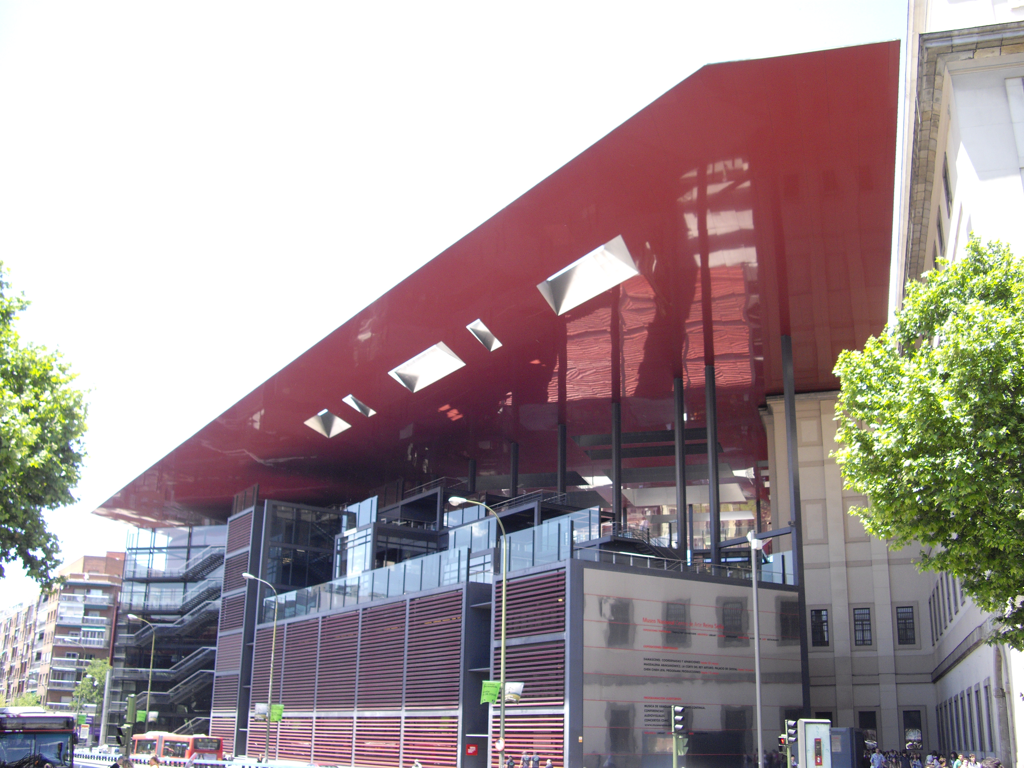 Museo Nacional Centro de Arte Reina Sofía, Madrid, Spain